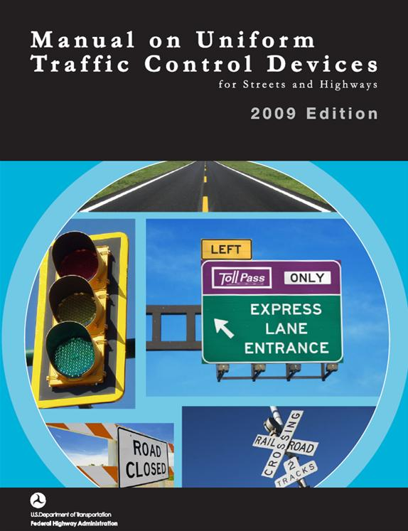 Cover of Manual on Uniform Traffic Control Devices, 2009 Edition